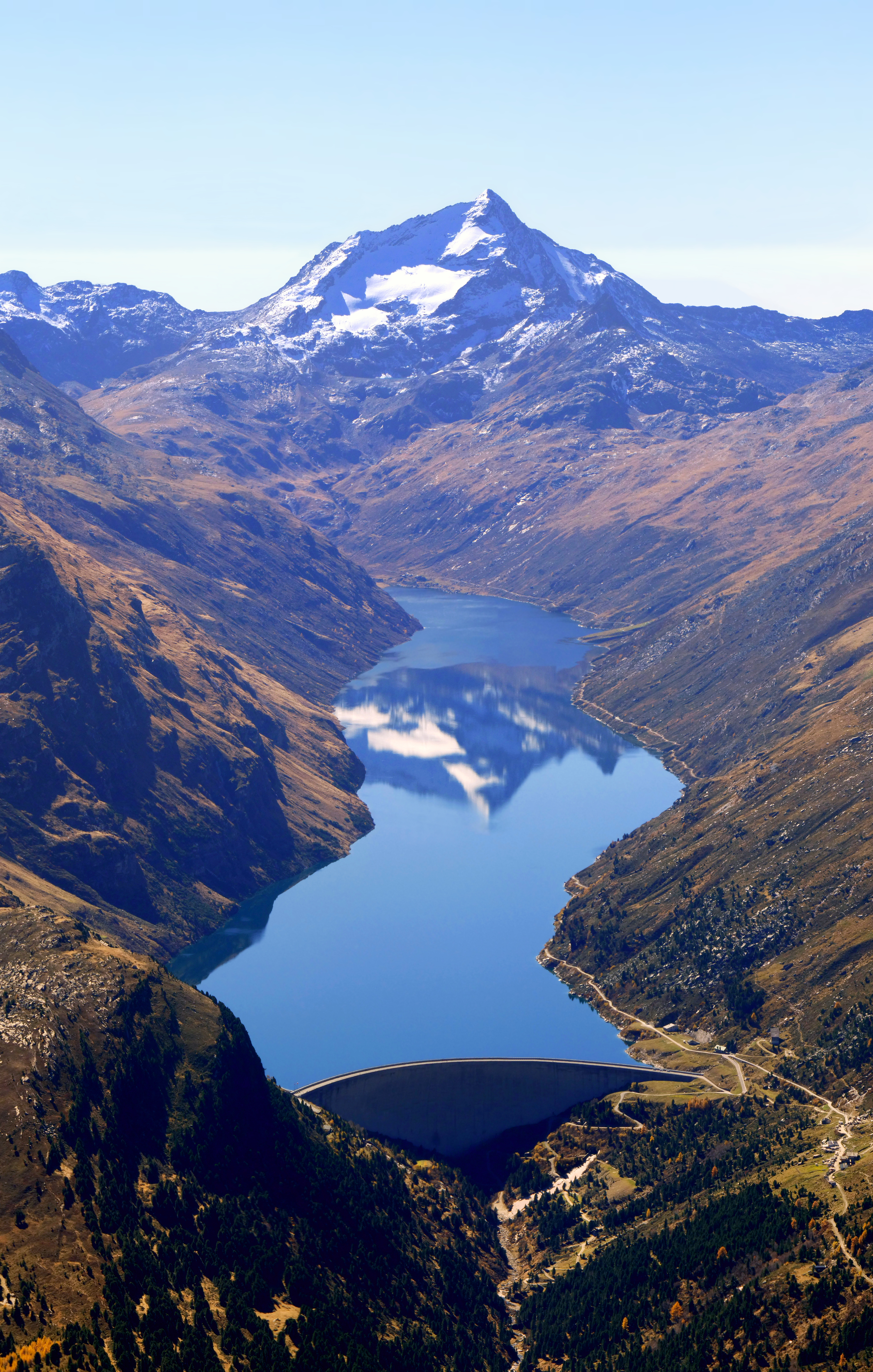 Lago di Lei, in the background Pizzo Stella, picture taken from the 9 km distant west peak of Piz Grisch (Ferrera, Grison, Switzerland).